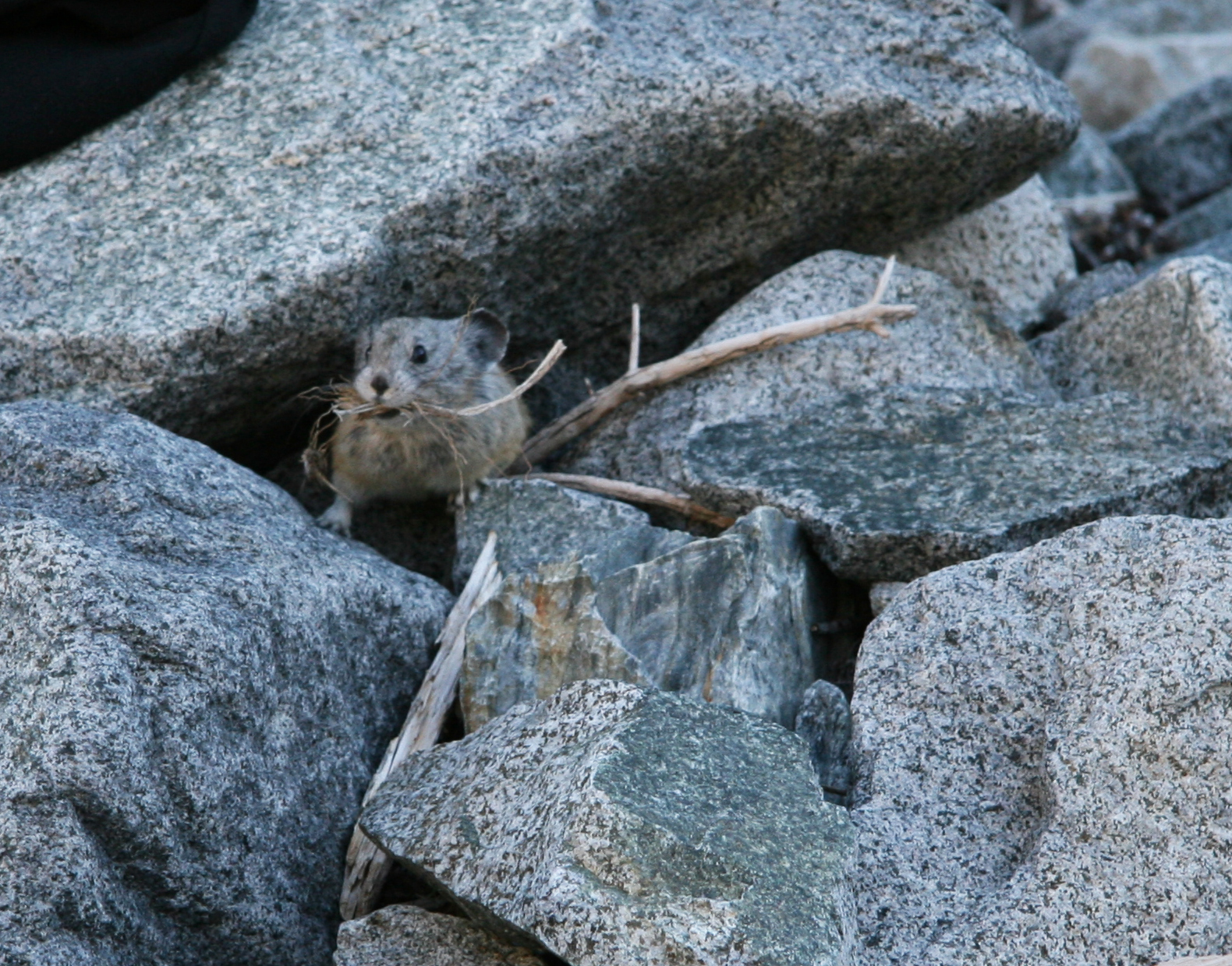 American pika (Ochotona princeps) "haying" in rocks (carrying back a mouthful of grass it has dried for winter food). At 2,340 m (7,680 ft) in streamside campsite below Black Rock Pass, Sequoia National Park, California.